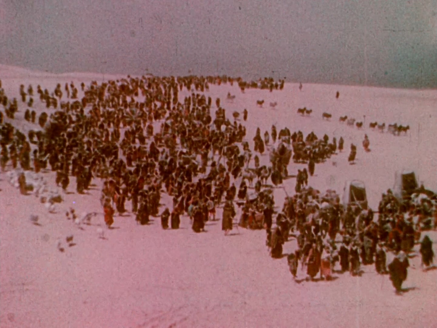 Screenshot from the silent film The Ten Commandments (1923).